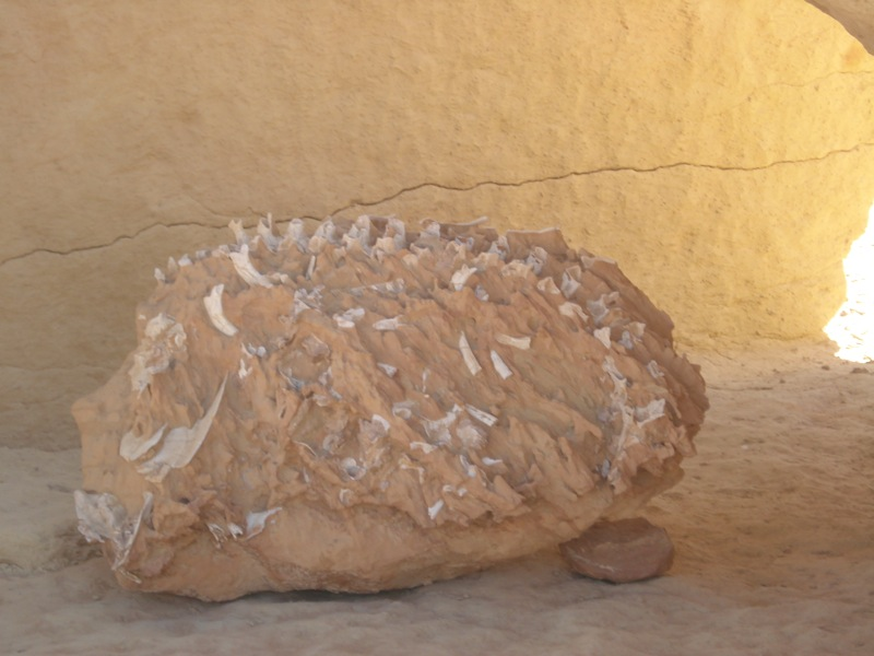 A skeleton of a Dorudon baby at Wadi al-Hitan